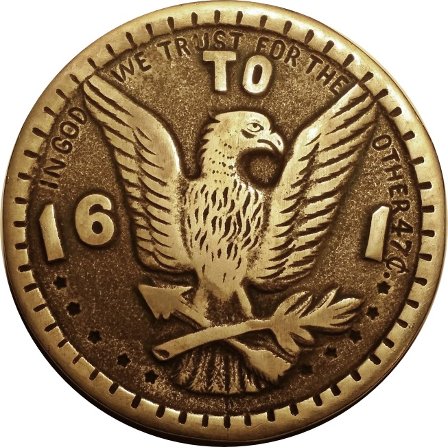 This crude representation of an oversized Morgan dollar, mocks Bryan with the words "IN GOD WE TRUST FOR THE OTHER 47C"